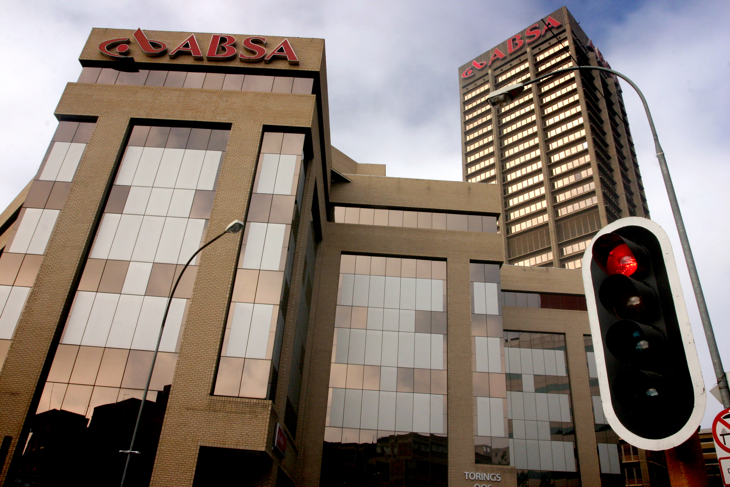 Absa's Head Office